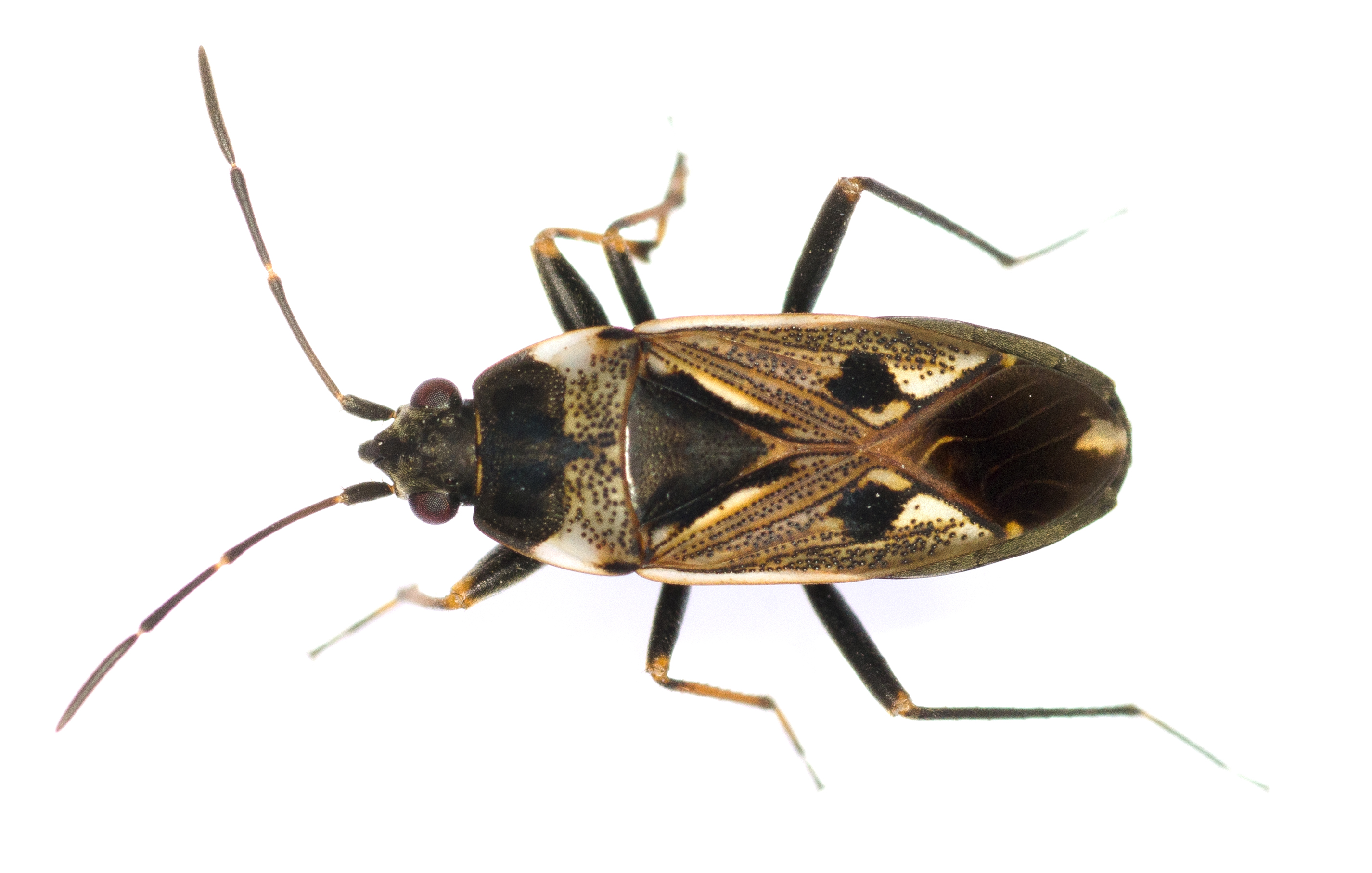 Rhyparochromus vulgaris. From nose to tail the bug is aprox 8mm long.